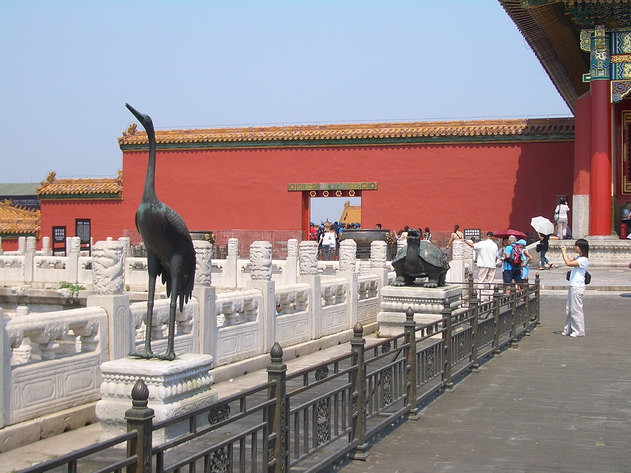 Crane and tortoise statues in the Forbidden City, Beijing